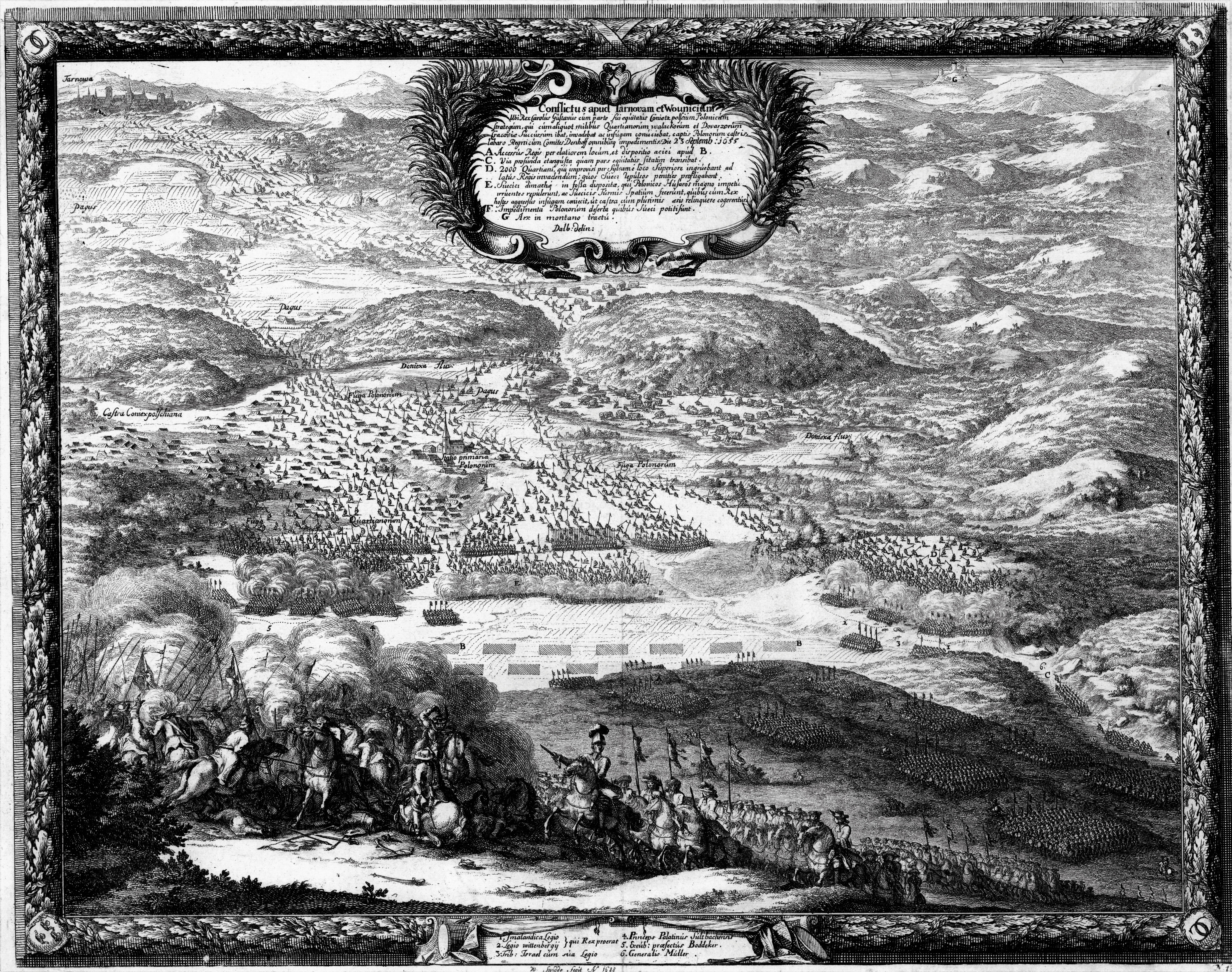 Conflictus apud Tarnovam et Wounicium Ubi Rex Carolus Gustavus cum parte Sui equitatus, Conietzpolscium Polonicum Die 23 septemb: 1655